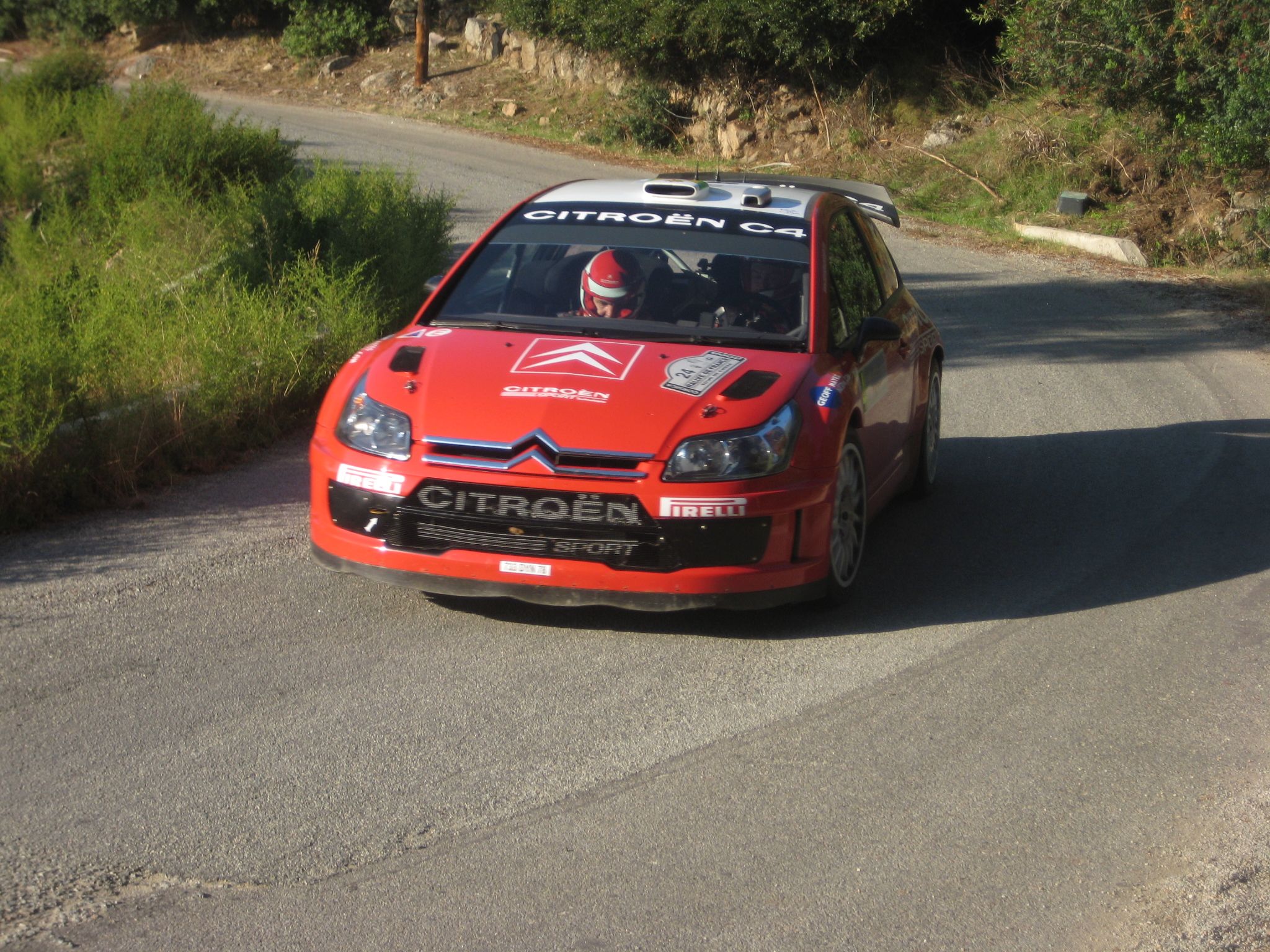 2008 Rallye de France, Day 2-SS12, Conrad Rautenbach - Citroen C4 WRC